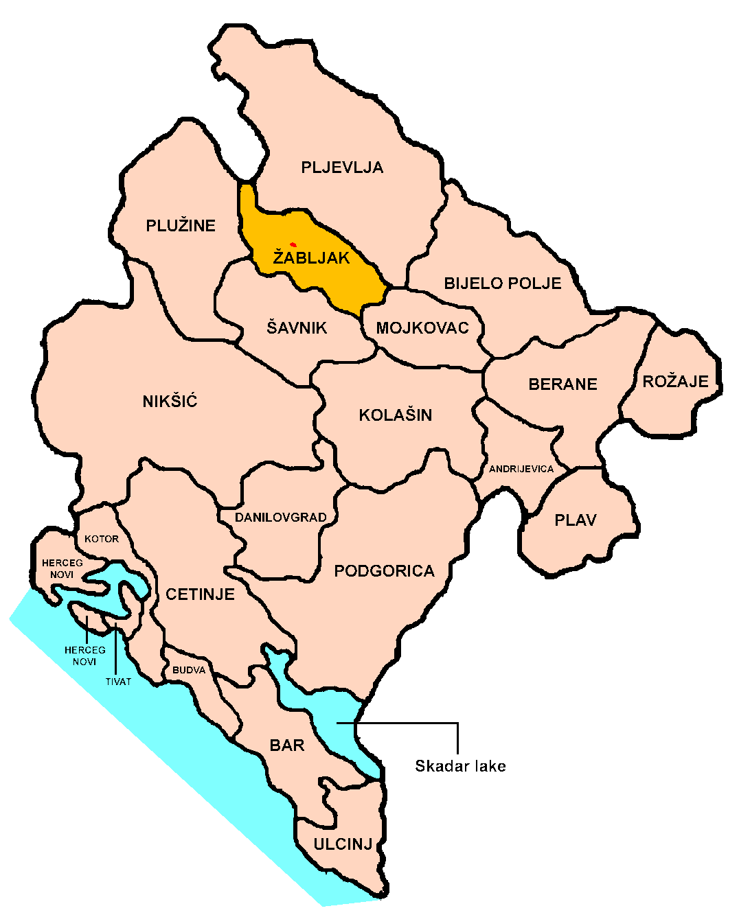 Location of Žabljak town and municipality within Montenegro